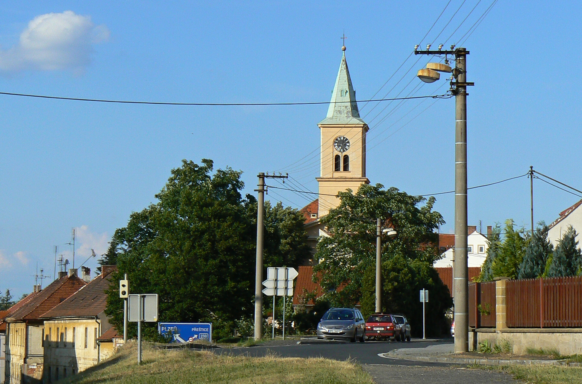 Church in town Stod in Plzeň-South District